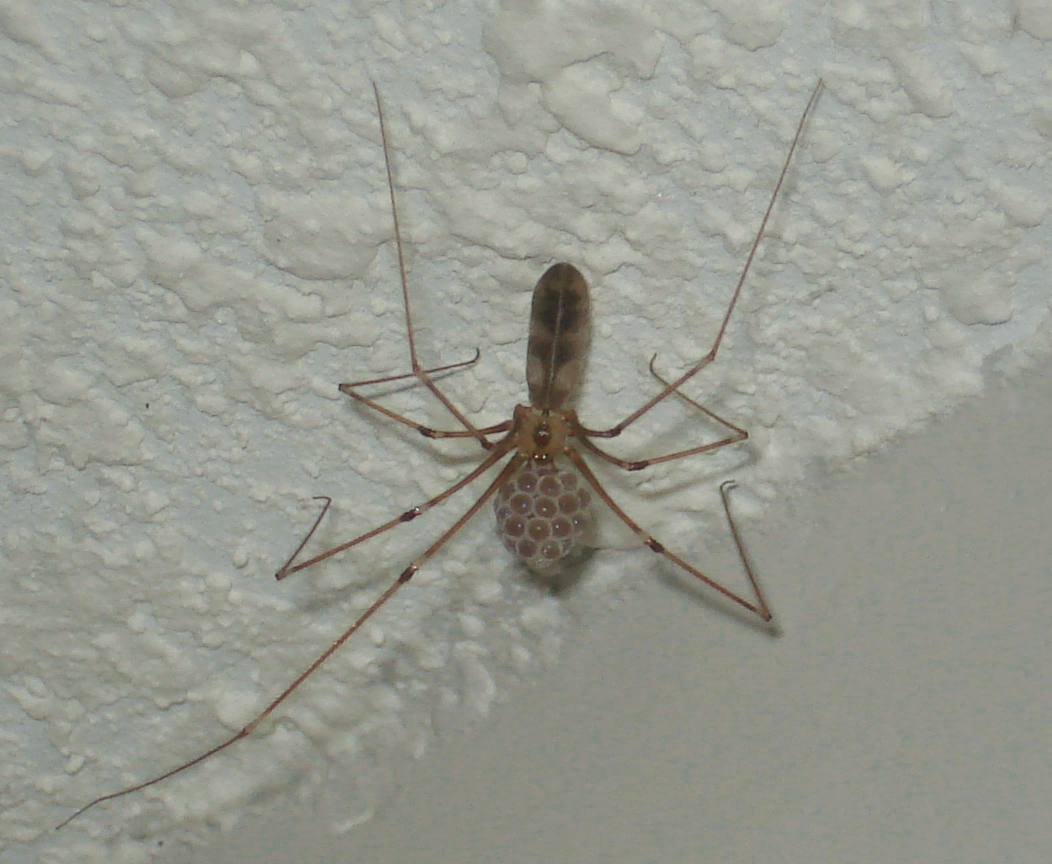 Pholcus phalangioides with an egg sac in her mouth